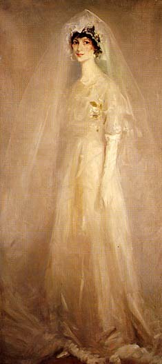 Robert Henri, Portrait of Eulabee Dix (Becker) in Her Wedding Gown, oil, 1910, Museum Purchase, Museum of Nebraska Art Collection